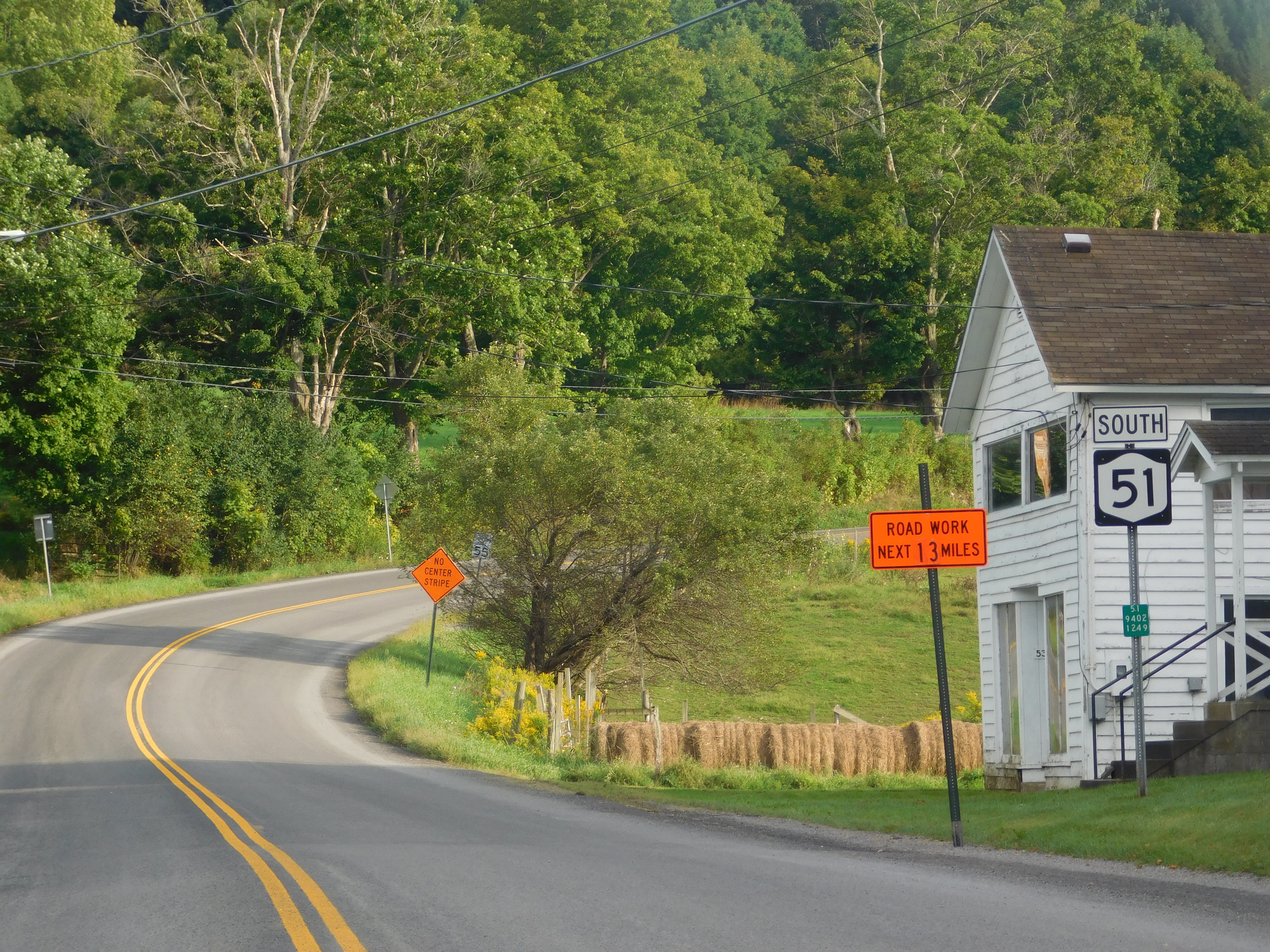 New York State Route 51 southbound in West Burlington, New York.